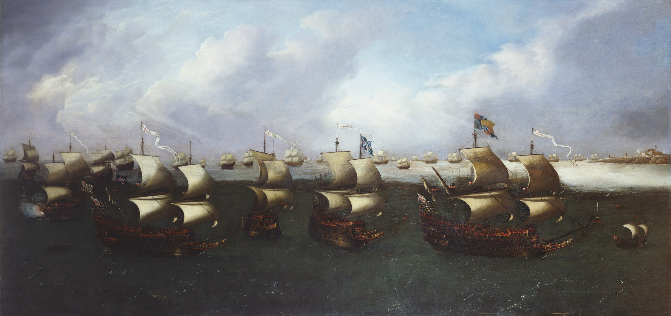 The Return of the Fleet with Charles I (1600-1649), when Prince of Wales in 1623 c.1623-30, by Cornelis Vroom RCIN 406193 Oil on canvas | 147.5 x 310.7 cm (support, canvas/panel/str external)